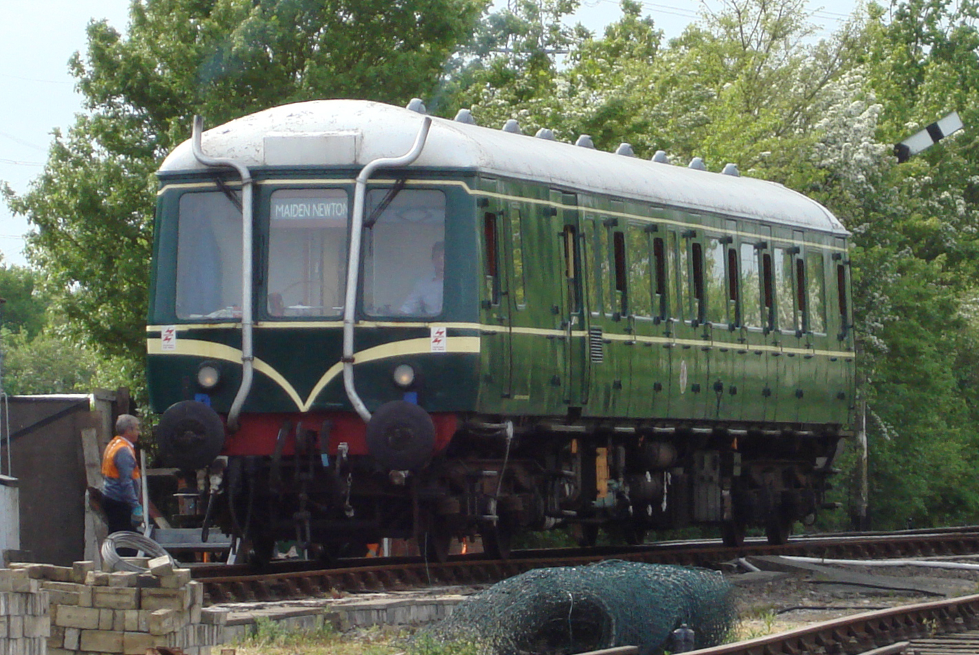 British Rail Class 121, number W55033 (121033) at the Colne Valley Railway